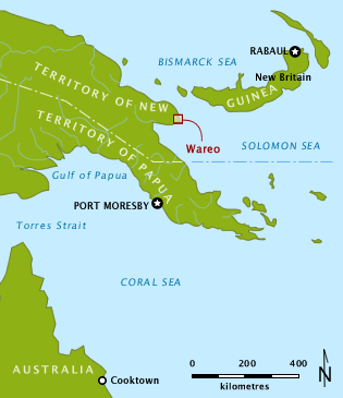 The Mandated Territory of New Guinea, Papua and Bougainville 1942-45, showing location of Wareo